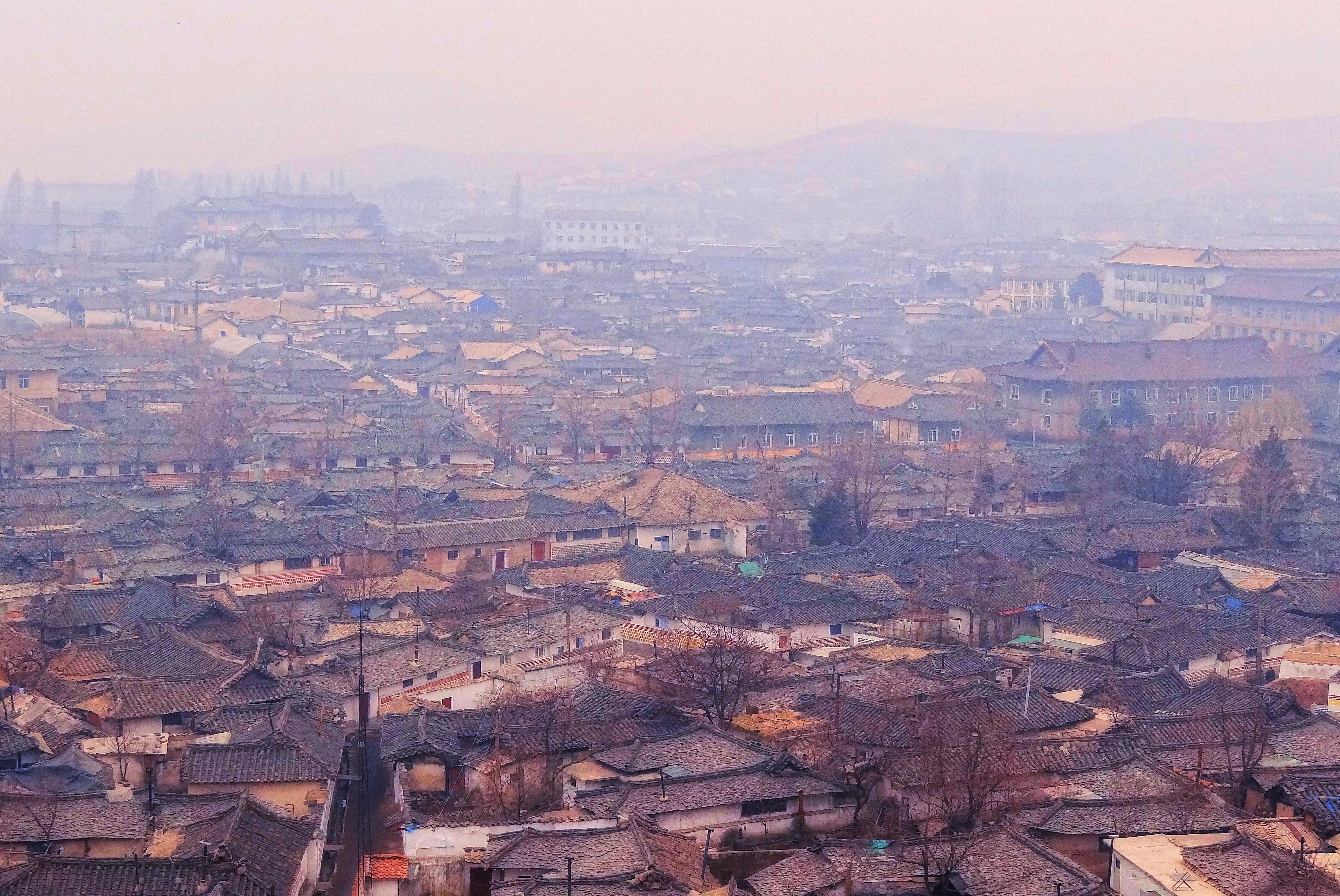 A view of the many remaining traditional buildings in the Old Town in Kaesong, North Korea, as seen towards the west from near the top of Mount Janam.